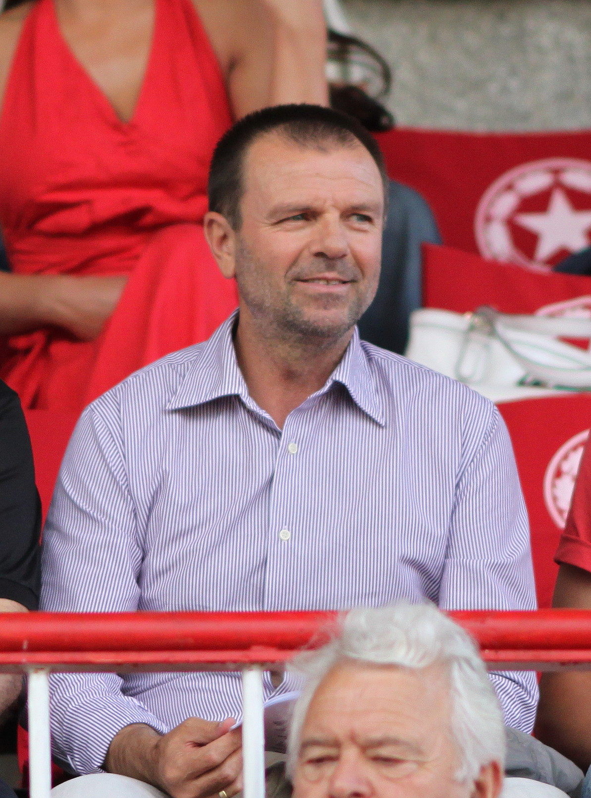 Stoycho Mladenov (Bulgarian: Стойчо Младенов) (born 12 April 1957 in Chernokonevo, Dimitrovgrad) is a Bulgarian former football player and as of recently the manager of ENPPI Club.